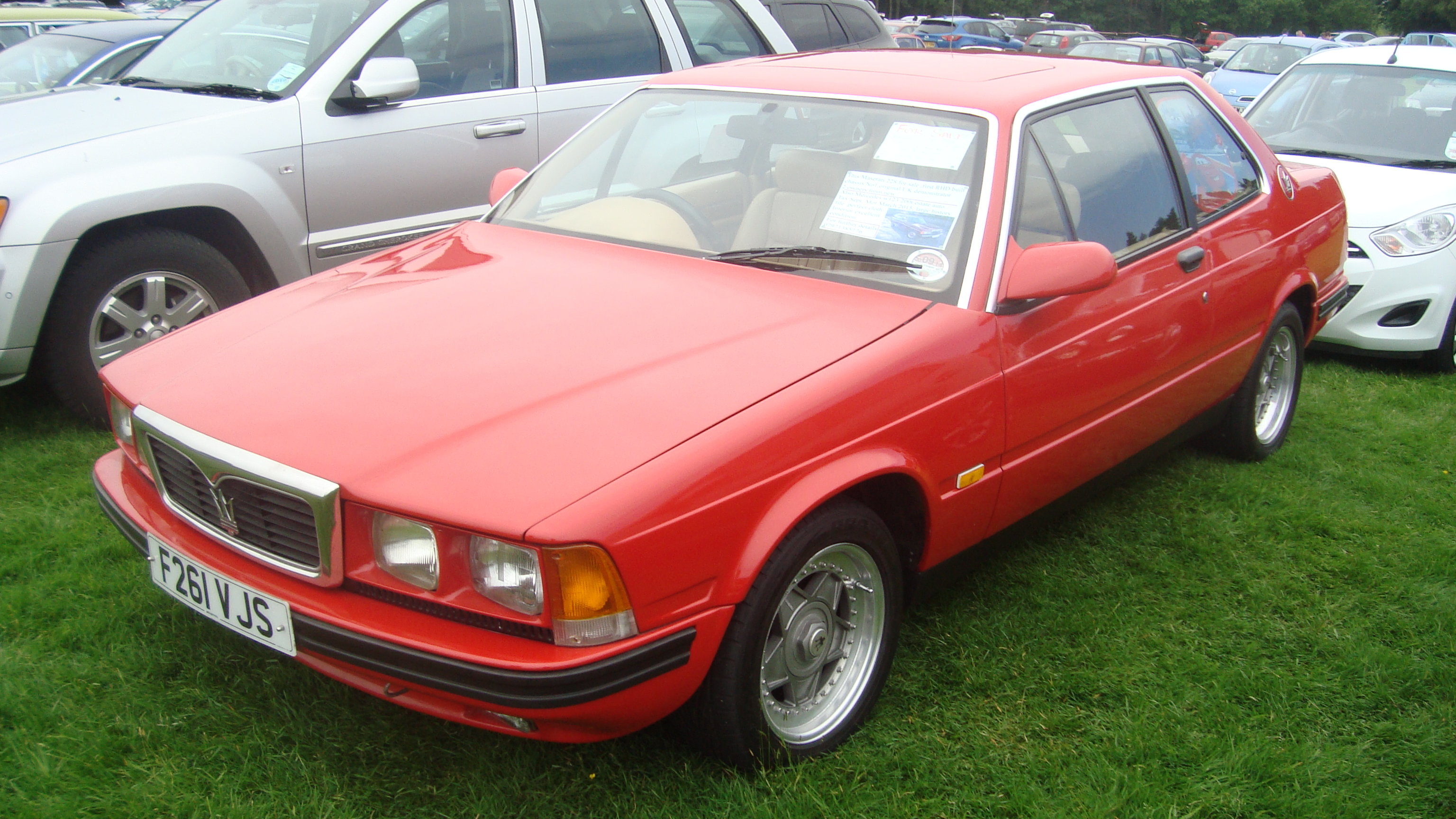 Never seen one of these before but I liked it, it was for sale for £15,000